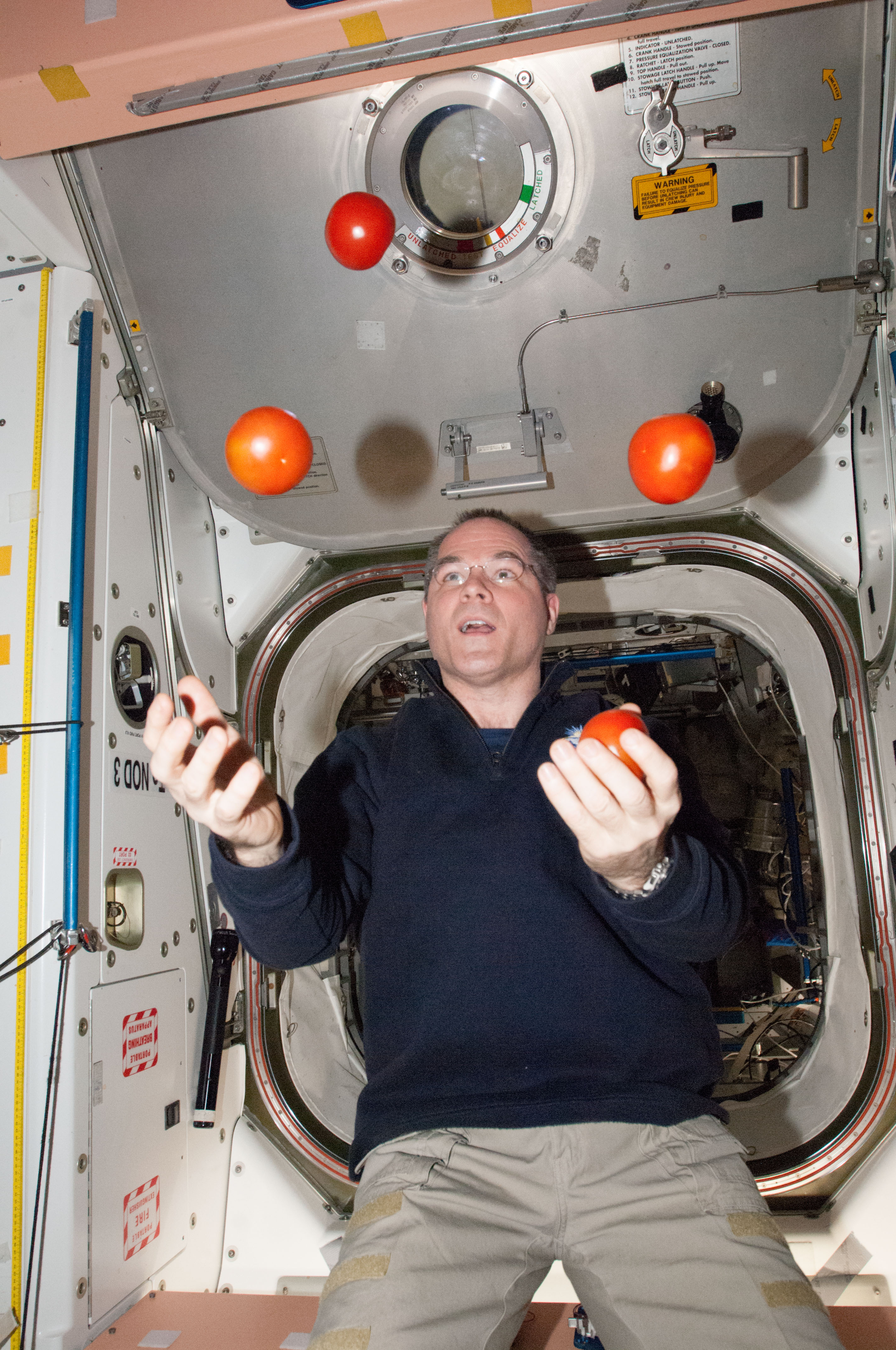 Taking advantage of a weightless environment onboard the Earth-orbiting International Space Station, Expedition 34 Commander Kevin Ford juggles some tomatoes, which he probably considers to be among the more delicious components of a recent "package" that arrived from Earth on March 3. The SpaceX Dragon 2 spacecraft brought up a large shipment of food and other supplies, and the spacecraft will remain docked to the station for three weeks. Ford is in Node 1 or Unity. The U.S. lab or Destiny is in the background.